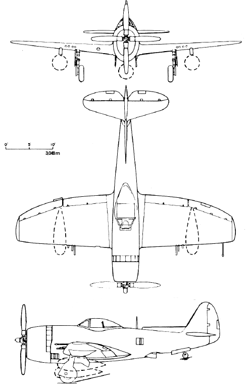 Line drawings for the Republic P-47N Thunderbolt (then designated F-47N).